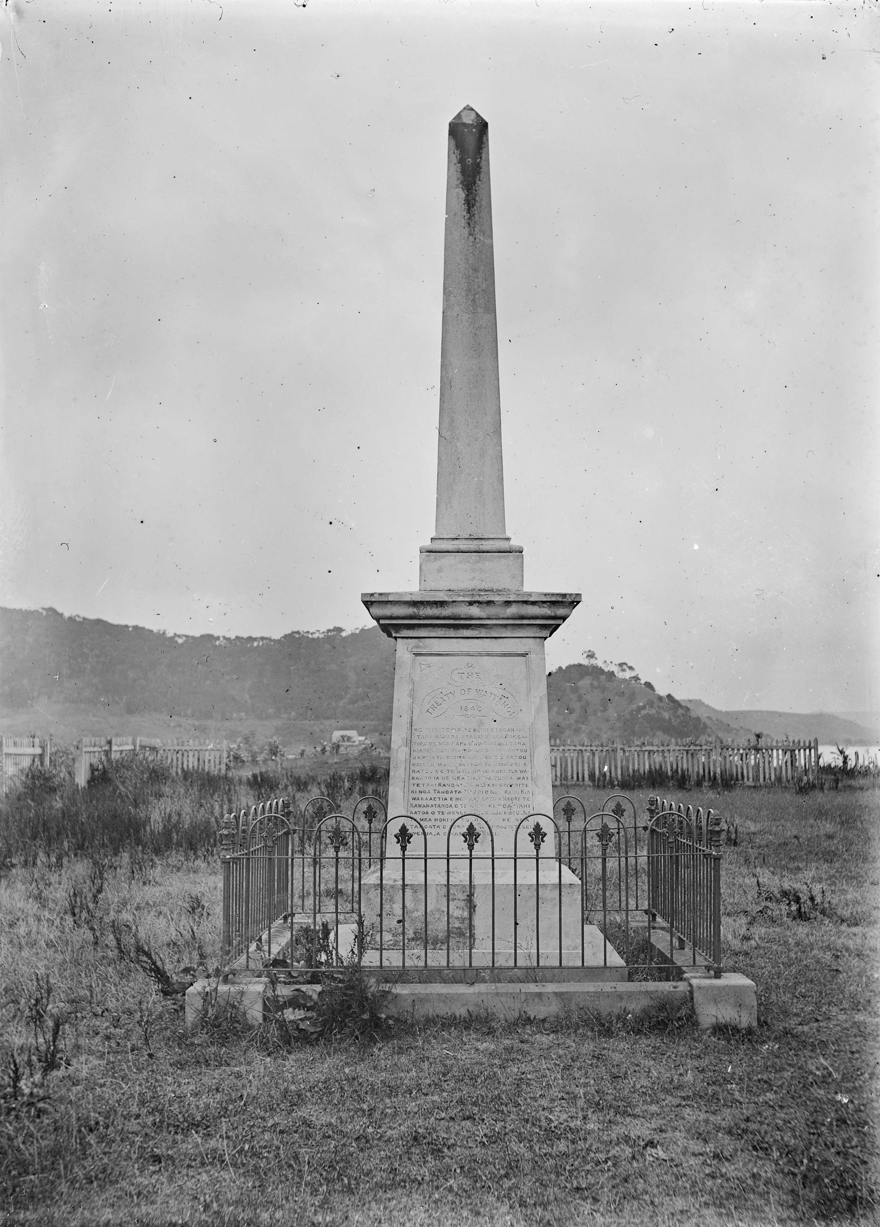 Photograph of the memorial erected to commemorate the Treaty of Waitangi. Taken by A P Godber in 1912. Dated from other images in the Godber Album.